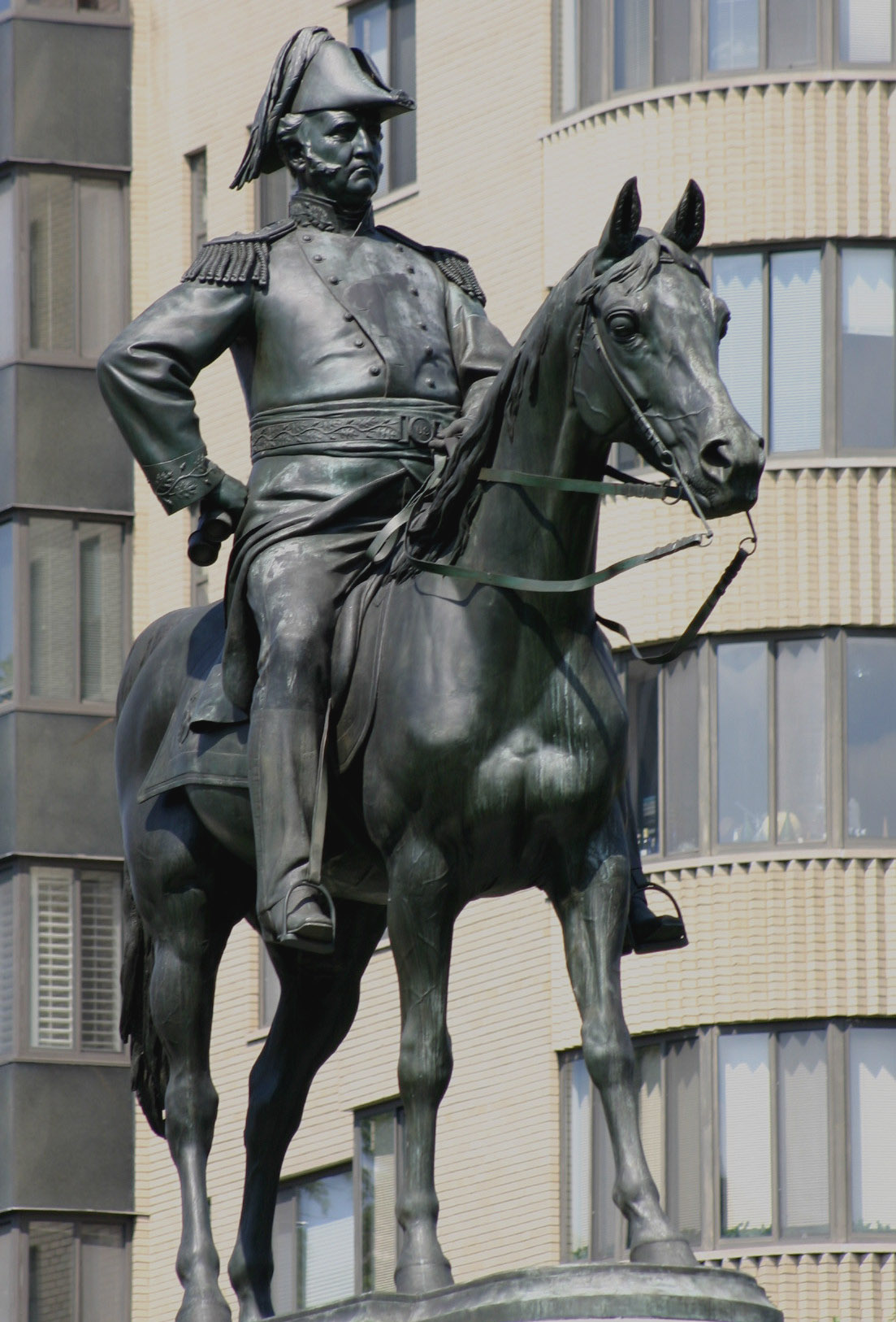 Statue of Lieutenant General Winfield Scott at Scott Circle, Massachusetts Ave. at 16th Street NW, Washington DC. Statue by Henry Kirke Brown, 1874